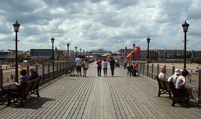 Skegness Pier Looking inland toward the amusement arcade through which the pier is accessed and, on the right, the seafront hotels and guest houses on Grand Parade.